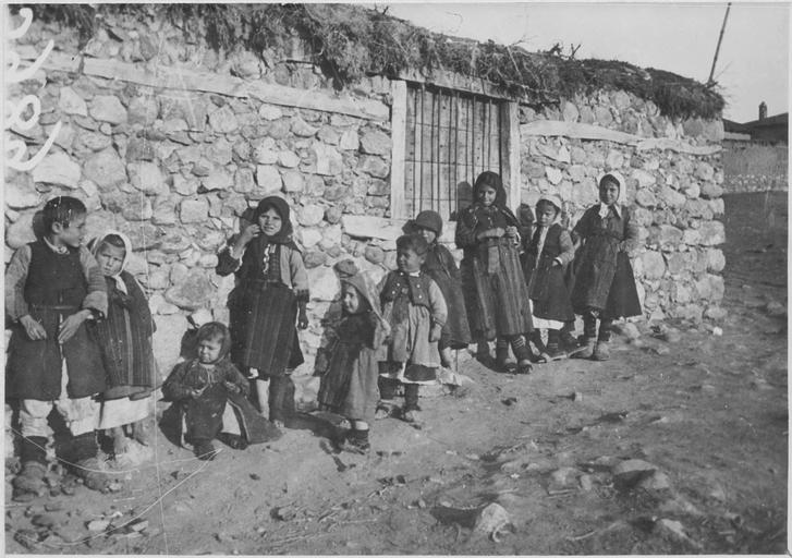 Village of Voshtarani/ Meliti, Greece